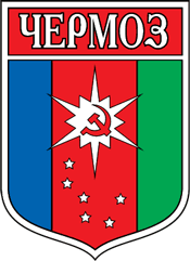 Chermoz (Perm krai), coat of arms (1988)